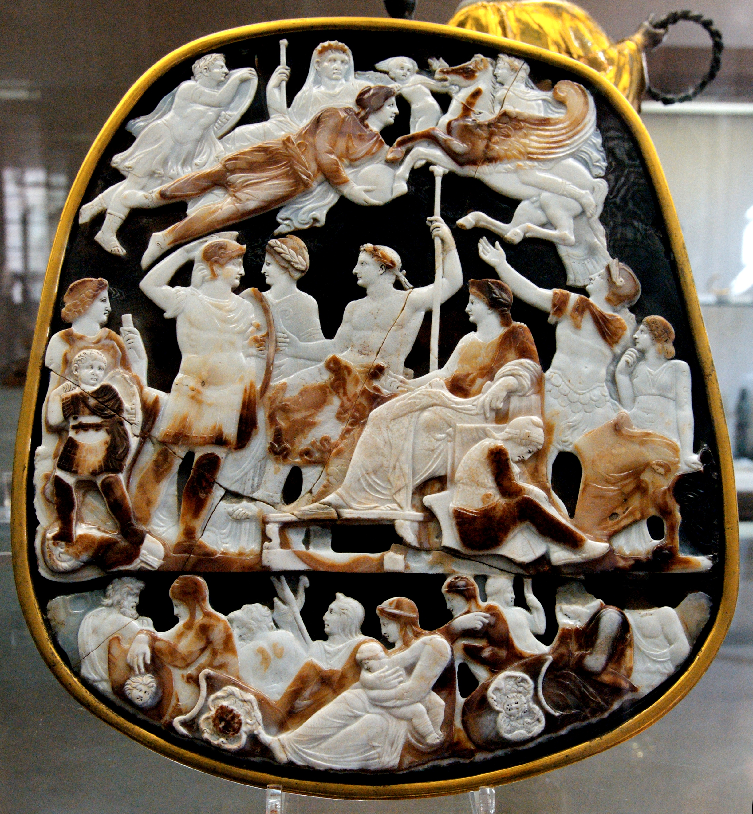 The Great Cameo of France. Five-layered sardonyx cameo, Roman artwork, second quarter of the 1st century AD.